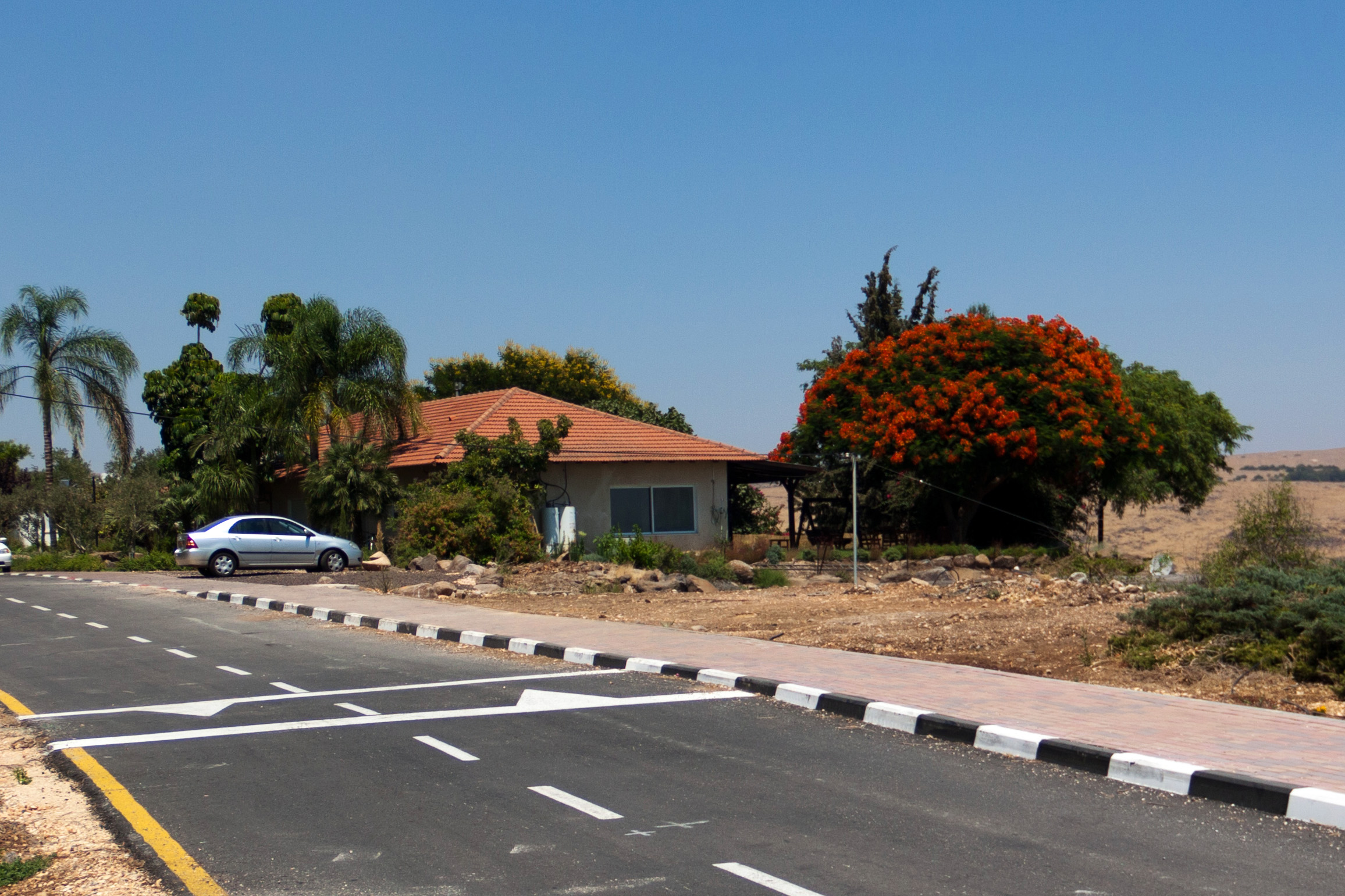 a house in Korazim